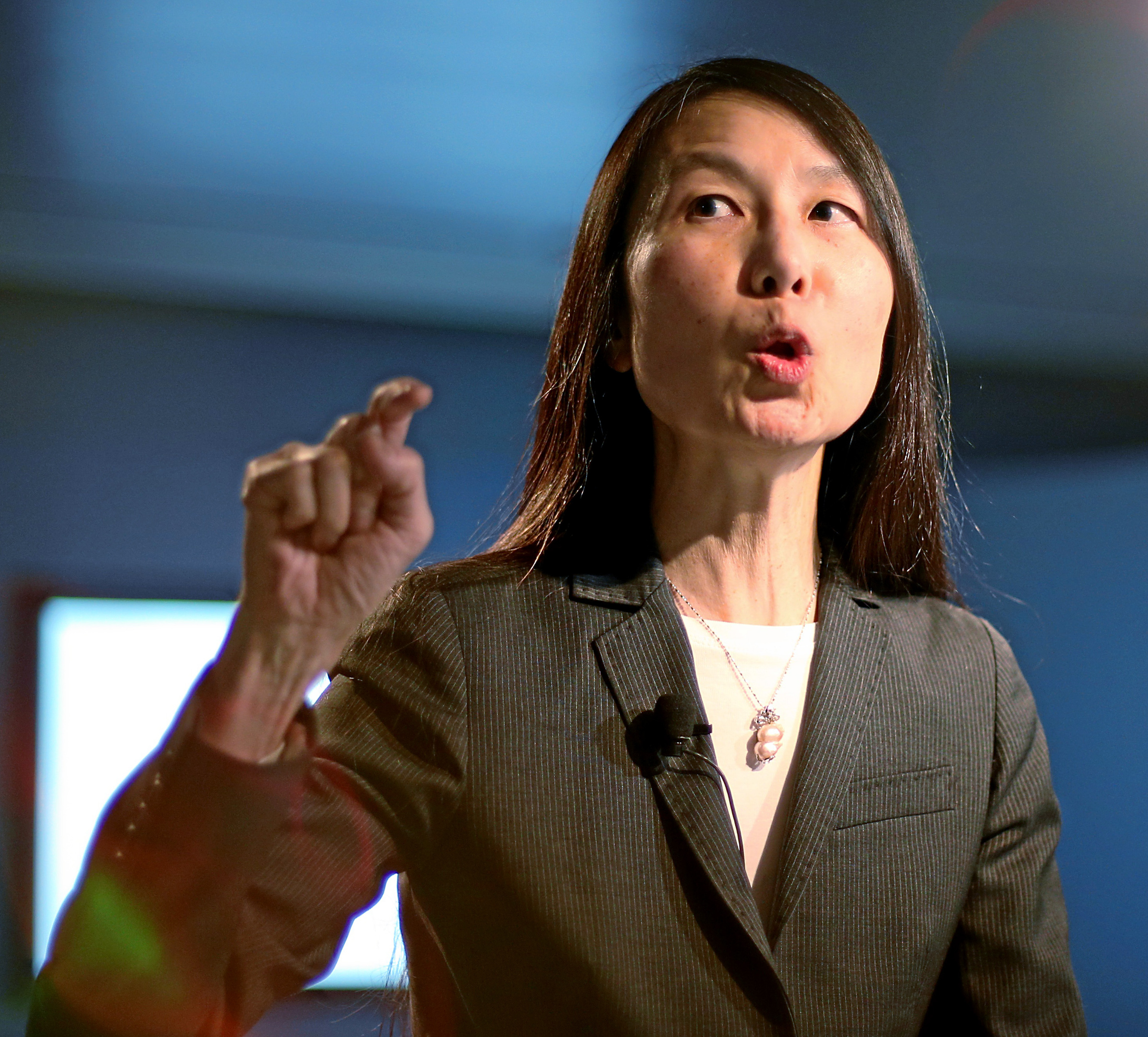 Jeannette M. Wing, President's Professor of Computer Science and Department Head, Computer Science Department, Carnegie Mellon University, USA speaks during the Session 'An insight, an idea with Jeannette Wing' at the Annual Meeting 2013 of the World Economic Forum in Davos, Switzerland, January 26, 2013.